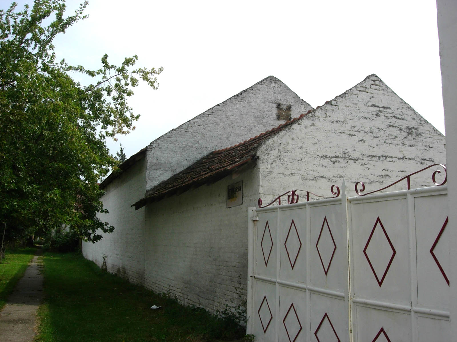 Building in Klek.